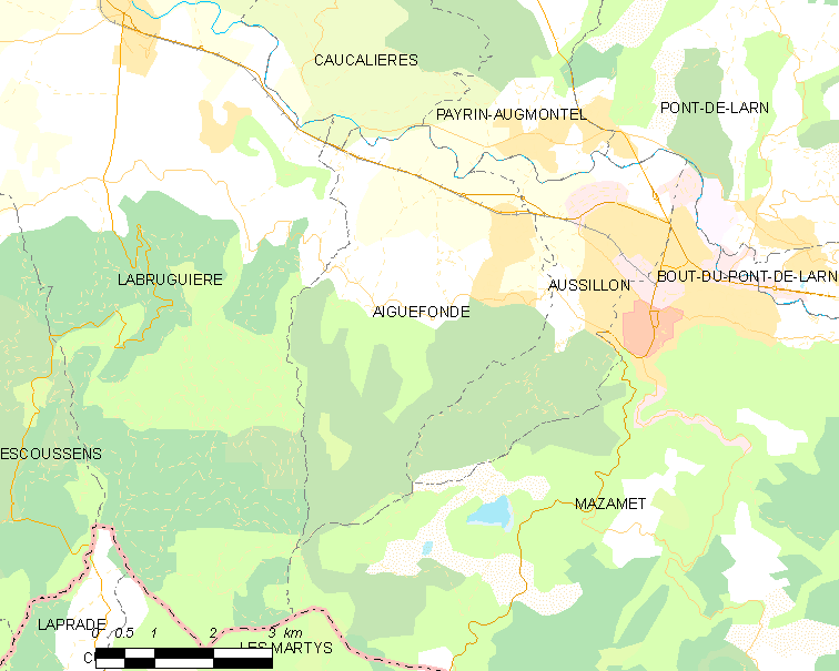 Map commune FR insee code 81002.png - Aiguefonde